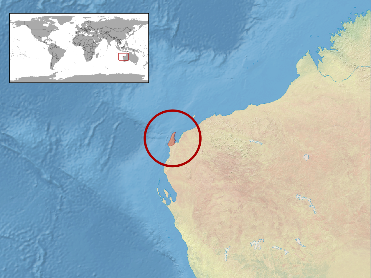 geographic distribution of Lerista allochira